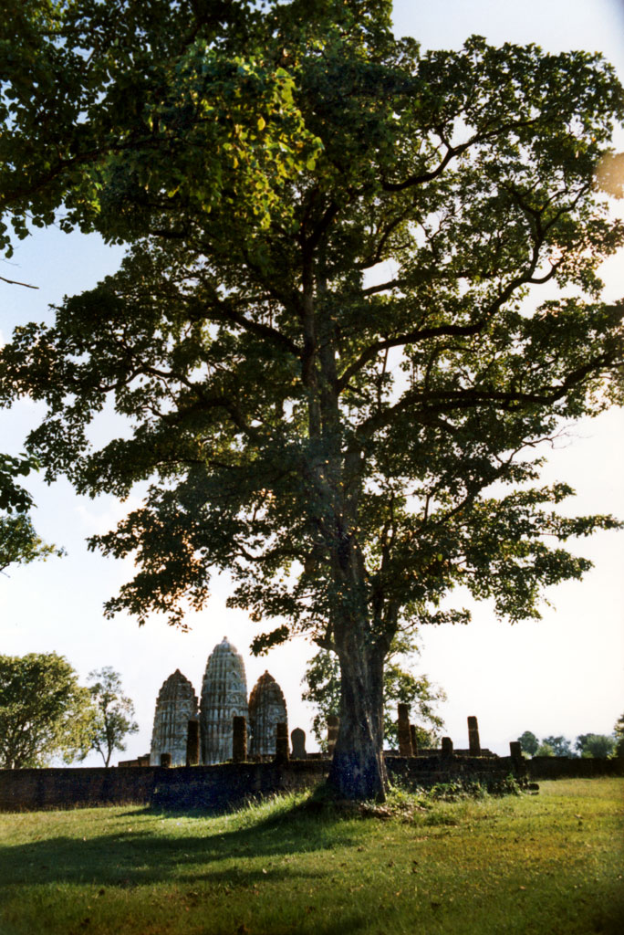 Wat Si Sawai, Sukhothai Historical Park, Thailand.